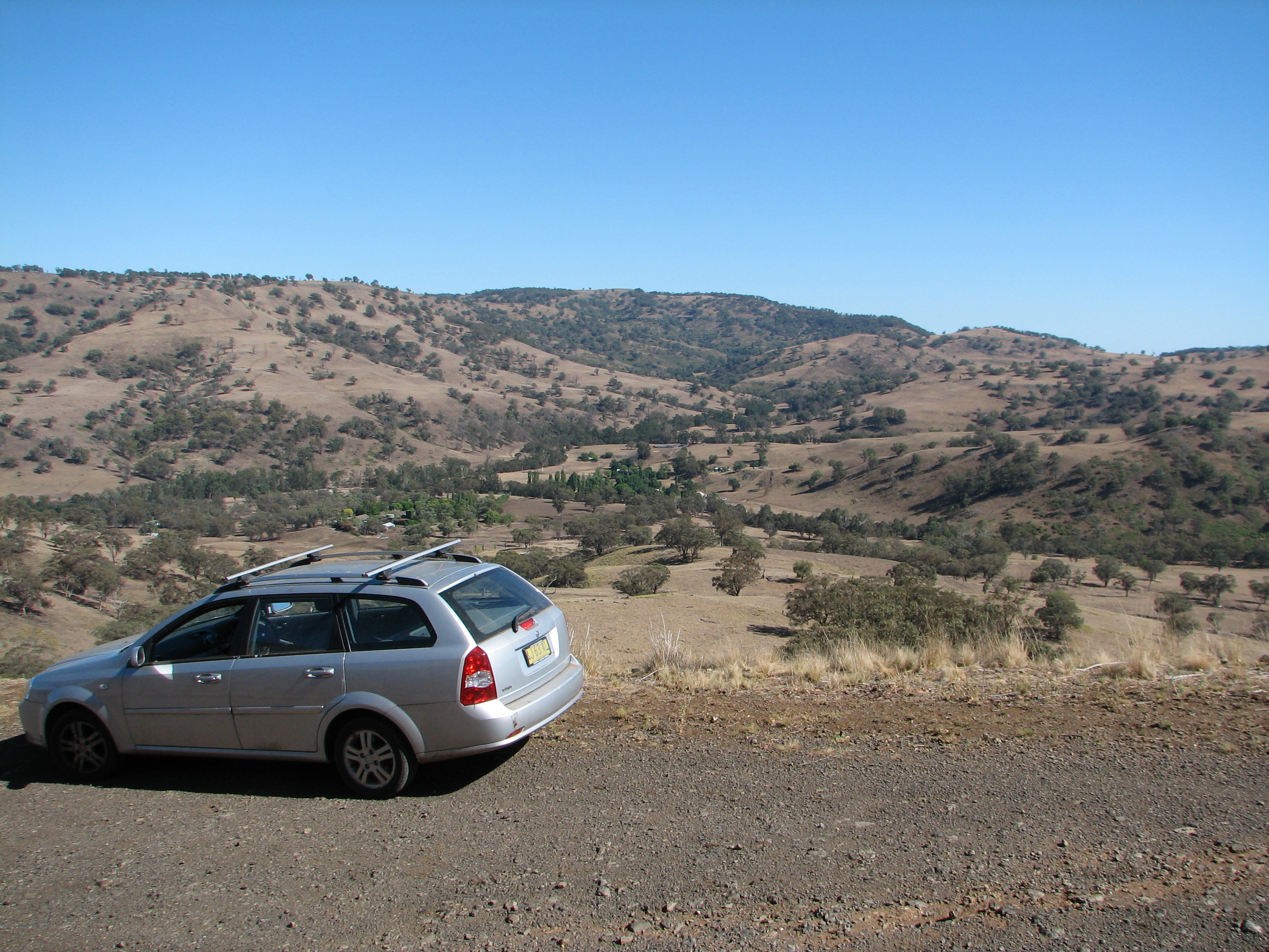 View looking from Coolah Tops National Park access road, towards Pandora's Pass.